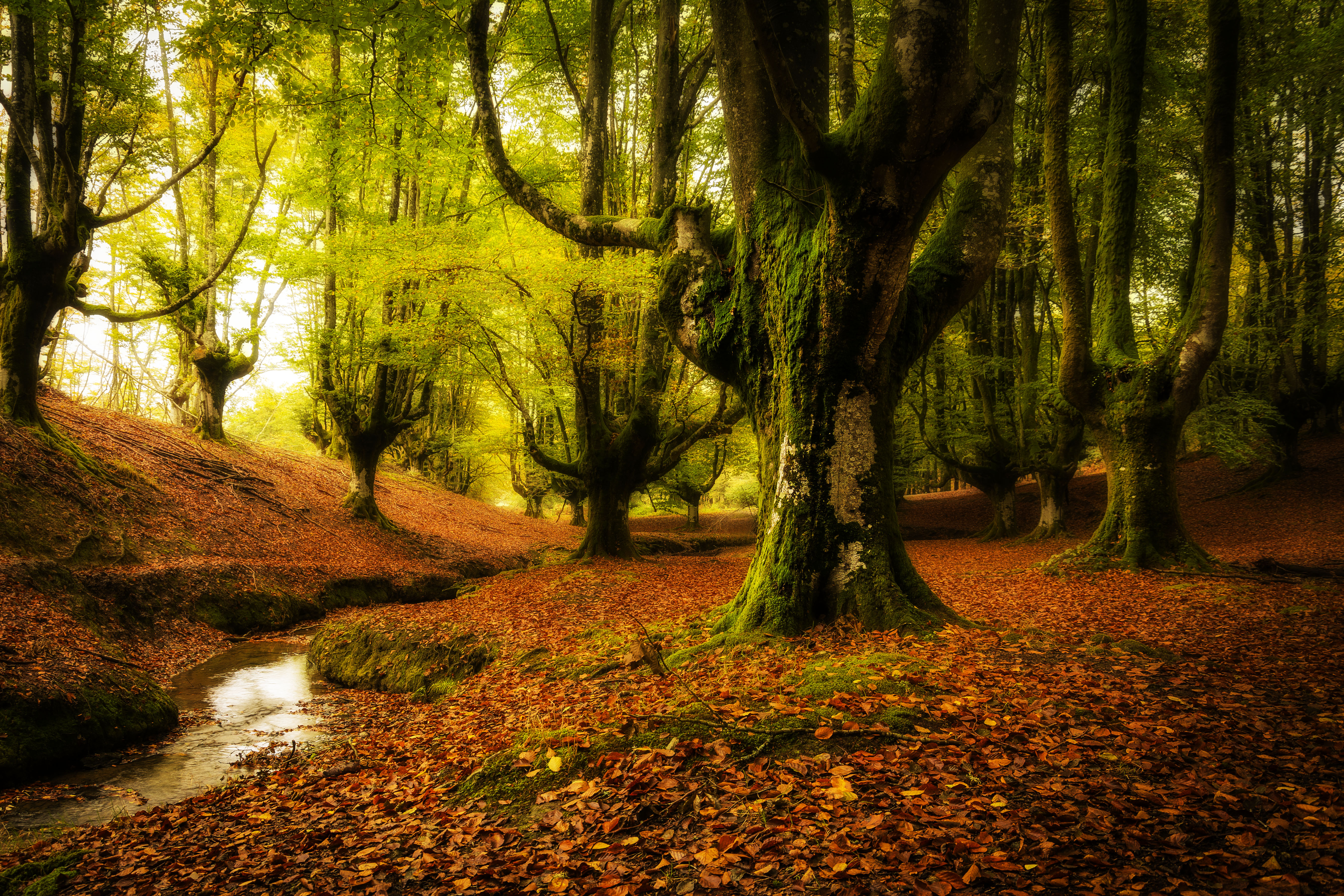 This is a photography of a Special Area of Conservation in Spain with the ID: ES2110009. Natura2000 entry, EEA entry